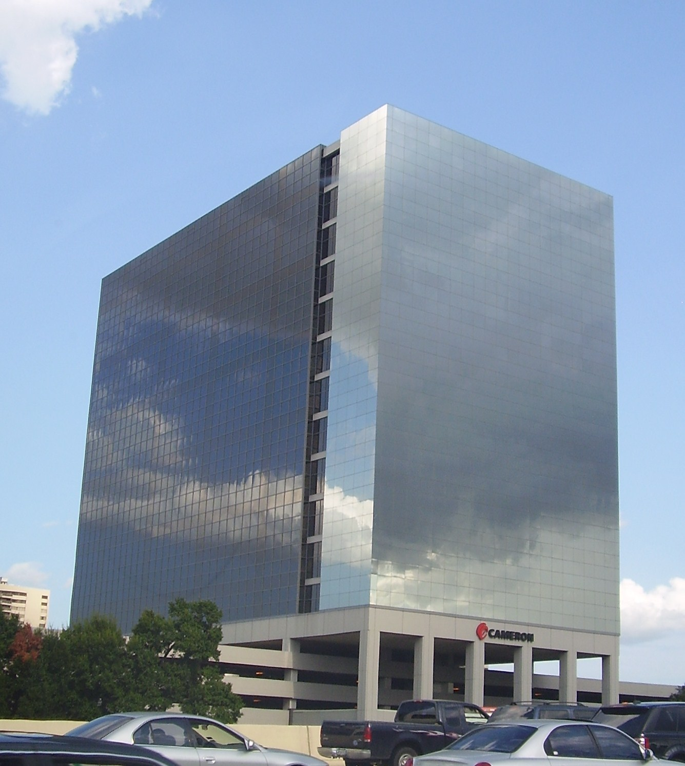 Park Towers South, Houston, Texas - Houses the headquarters of Cameron International Corporation and the Consulate-General of Russia in Houston